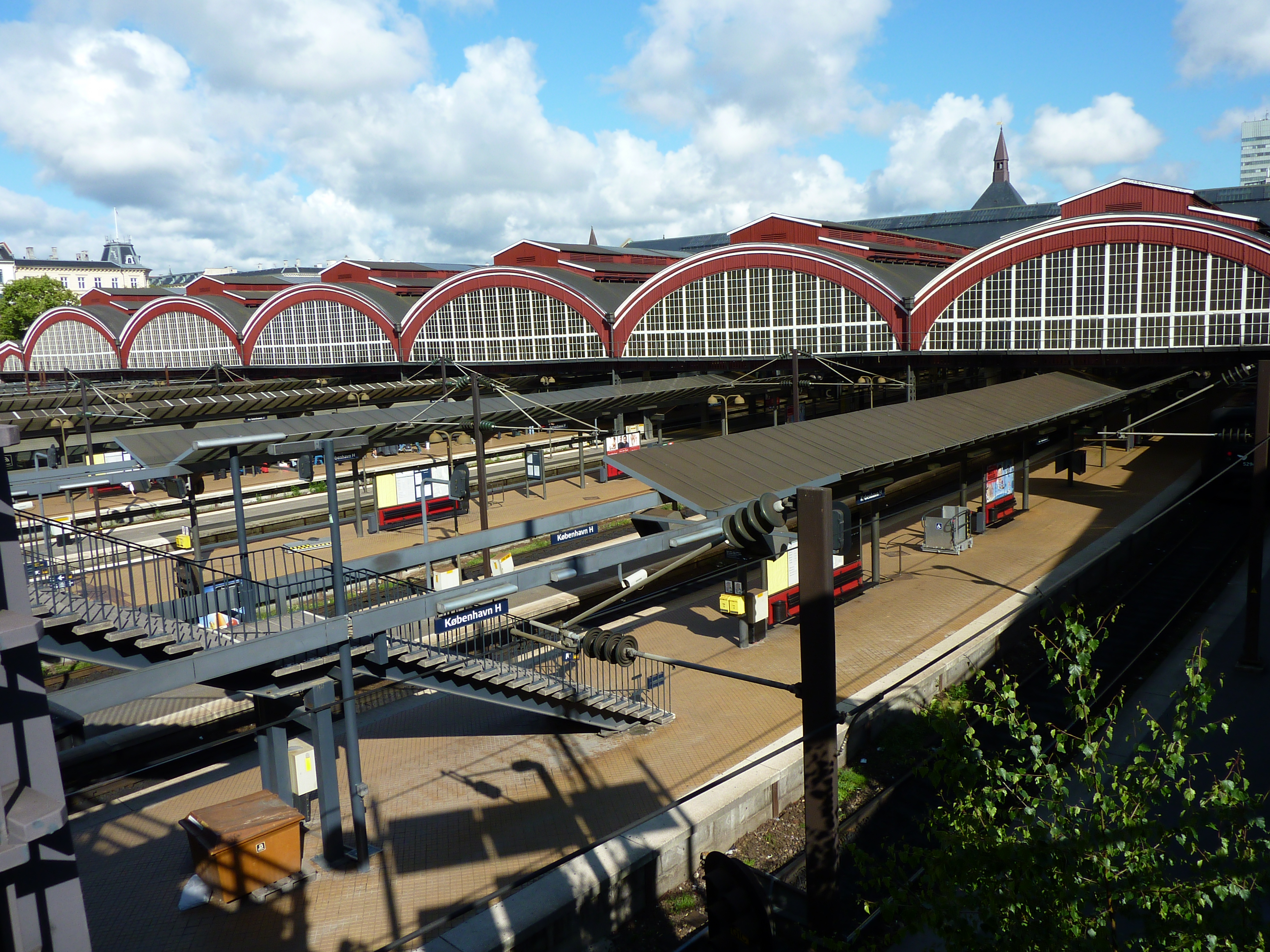 Main railway station Copenhagen in Denmark, platforms